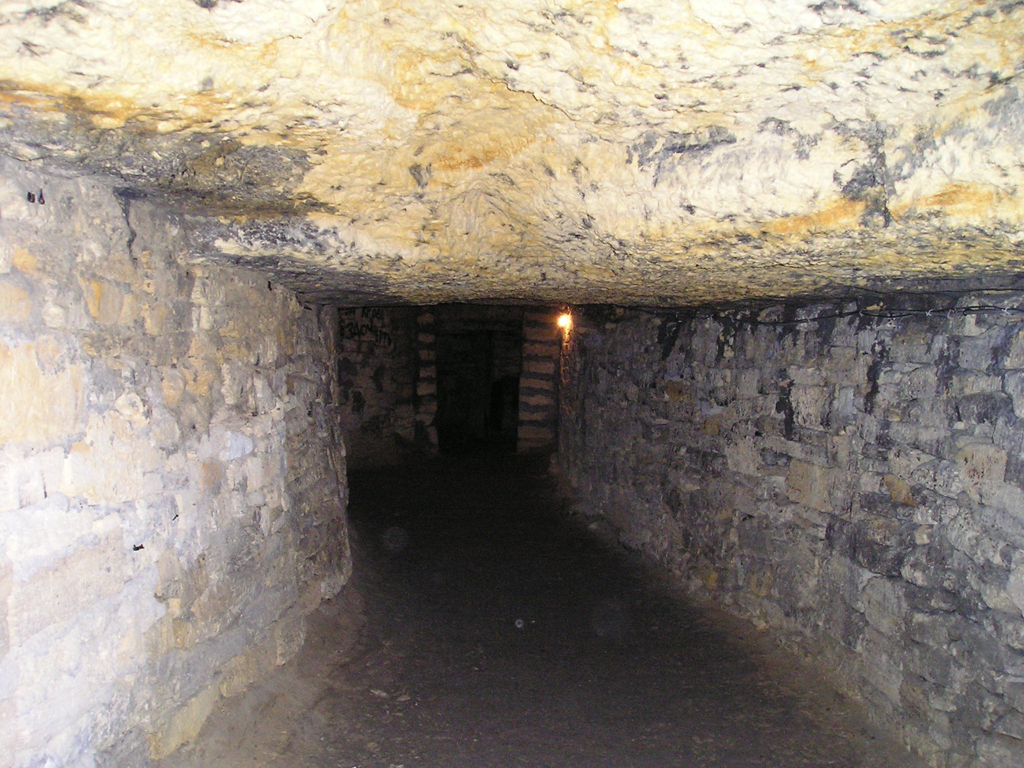 Entry to the Catakombs of Odessa